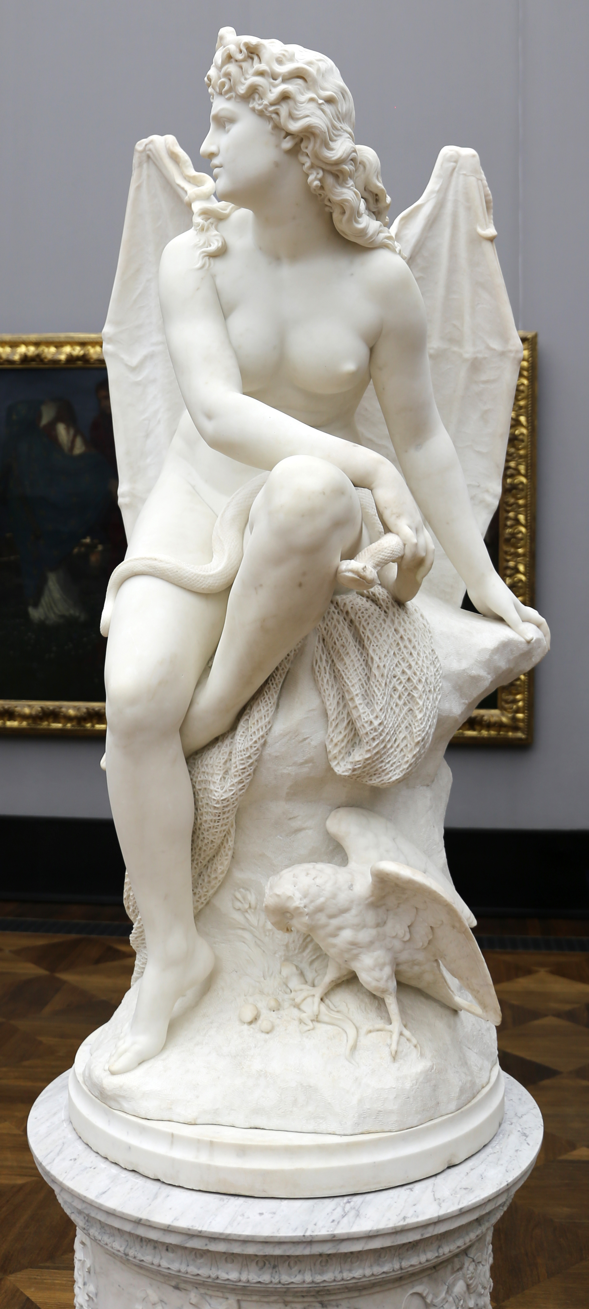 Sculptures in the Alte Nationalgalerie